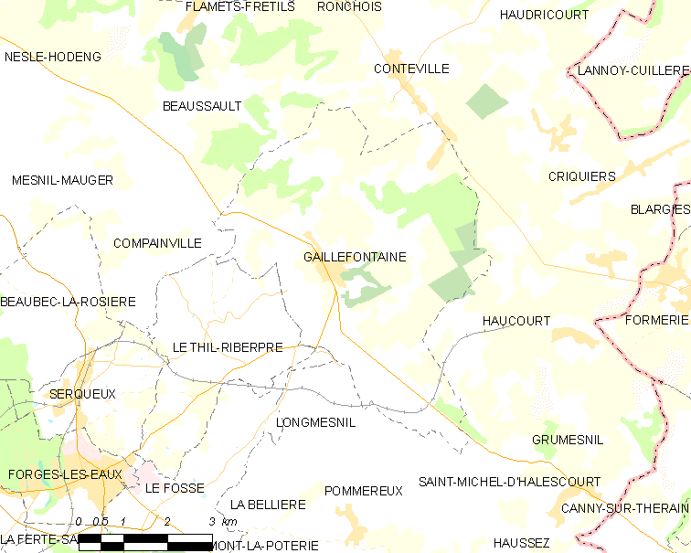 Map of French municipality Gaillefontaine